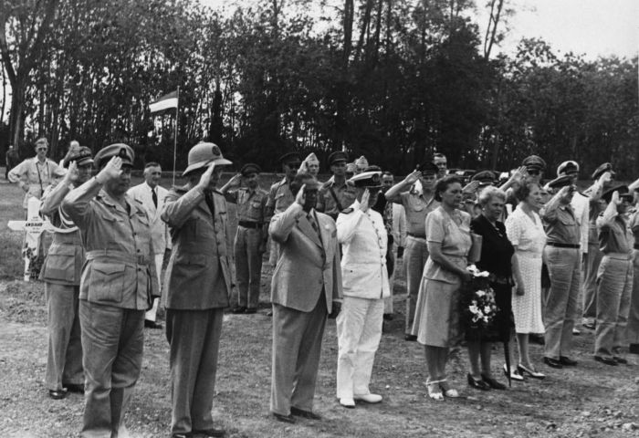 Laying wreaths at the military cemetery by lieutenant governor general H.J. van Mook, Wali Negara Sumatera Timur Dr. Mansoer and others